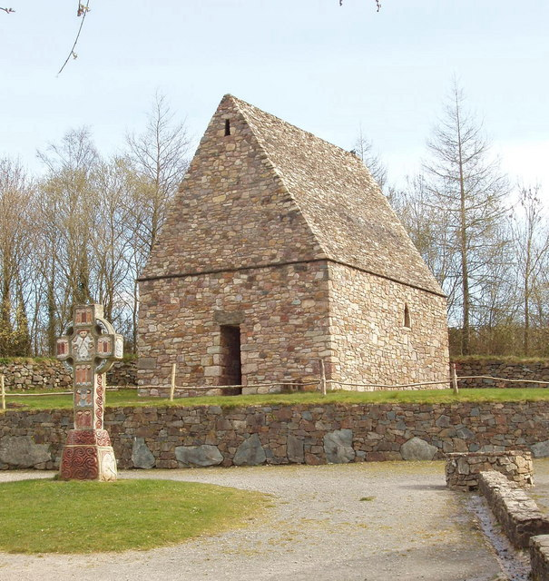 Early Christian chapel, Irish National Heritage Park. A reconstruction of the type of small chapel on an early Christian monastery, 6th to 12th Centuries A.D. For more photos in the park, .